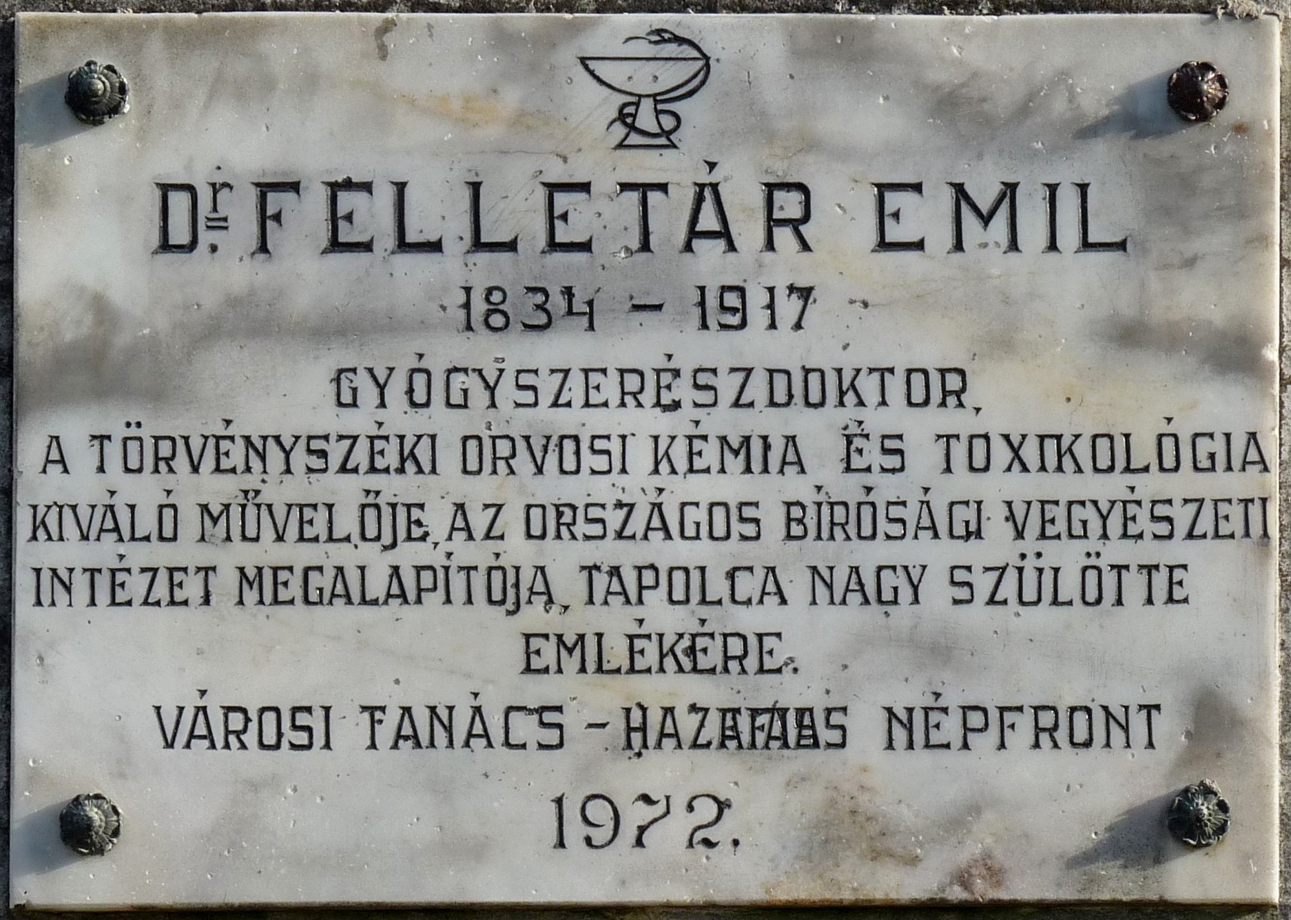 Commemorative plaque to Dr. Pharm. Emil Felletár (1834-1917) Hungarian pharmacist and chemist, creator of Forensic Toxicology in Hungary. It is affixed on the Pantheon Wall of the city. (Tapolca, Batsányi János Square)